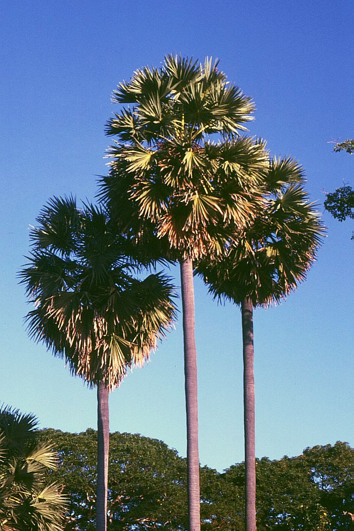 Borassus flabellifer, Palmen (Arecaceae) - Kambodscha/Cambodia, Angkor Wat (Prov. Siem Reap)